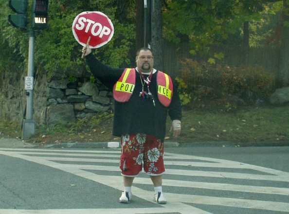 Policeman securing pedestrian crossing